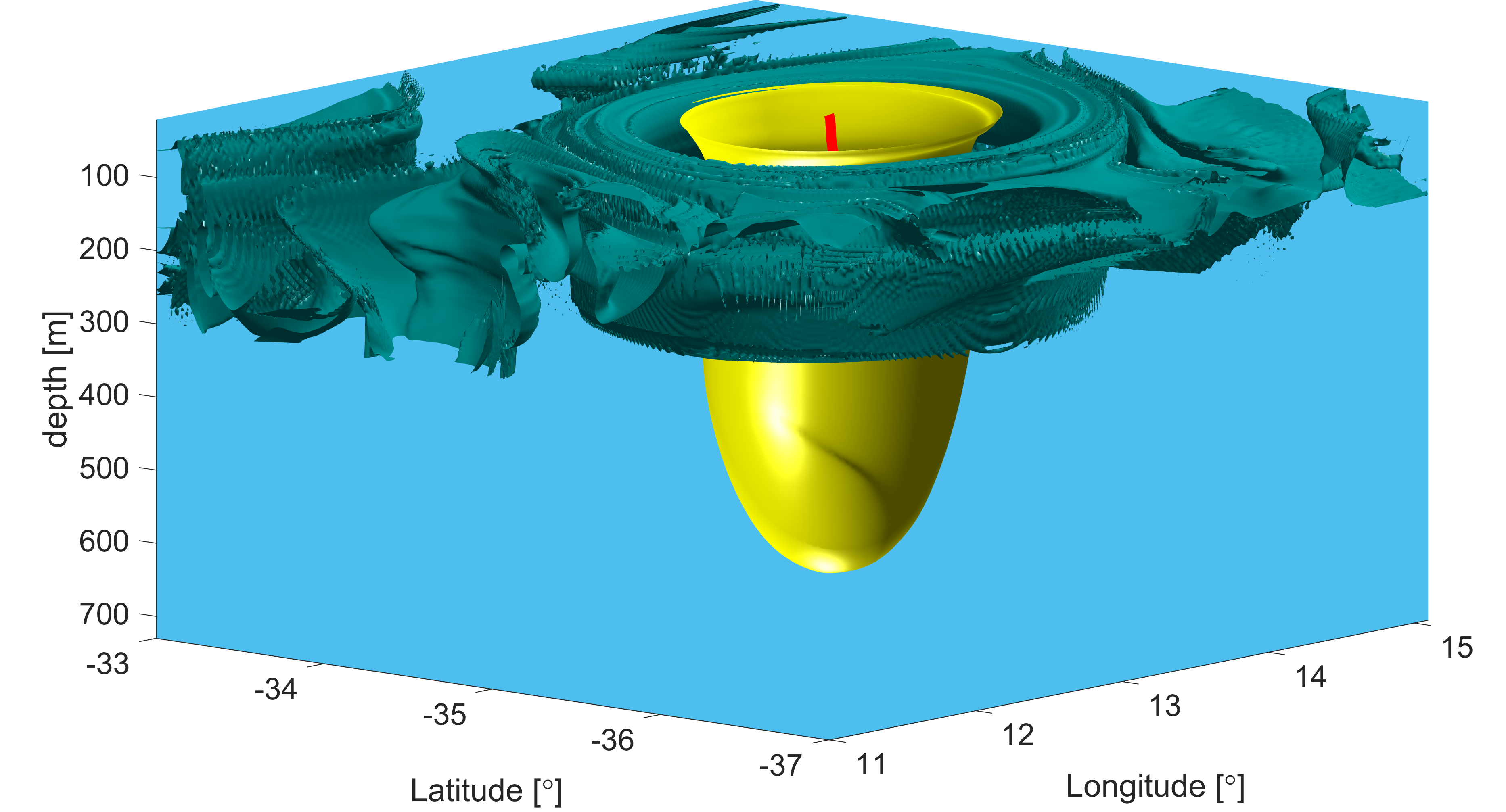 Representative level surfaces of LAVD field at t0 = May 15, 2006 with T = 120 days.